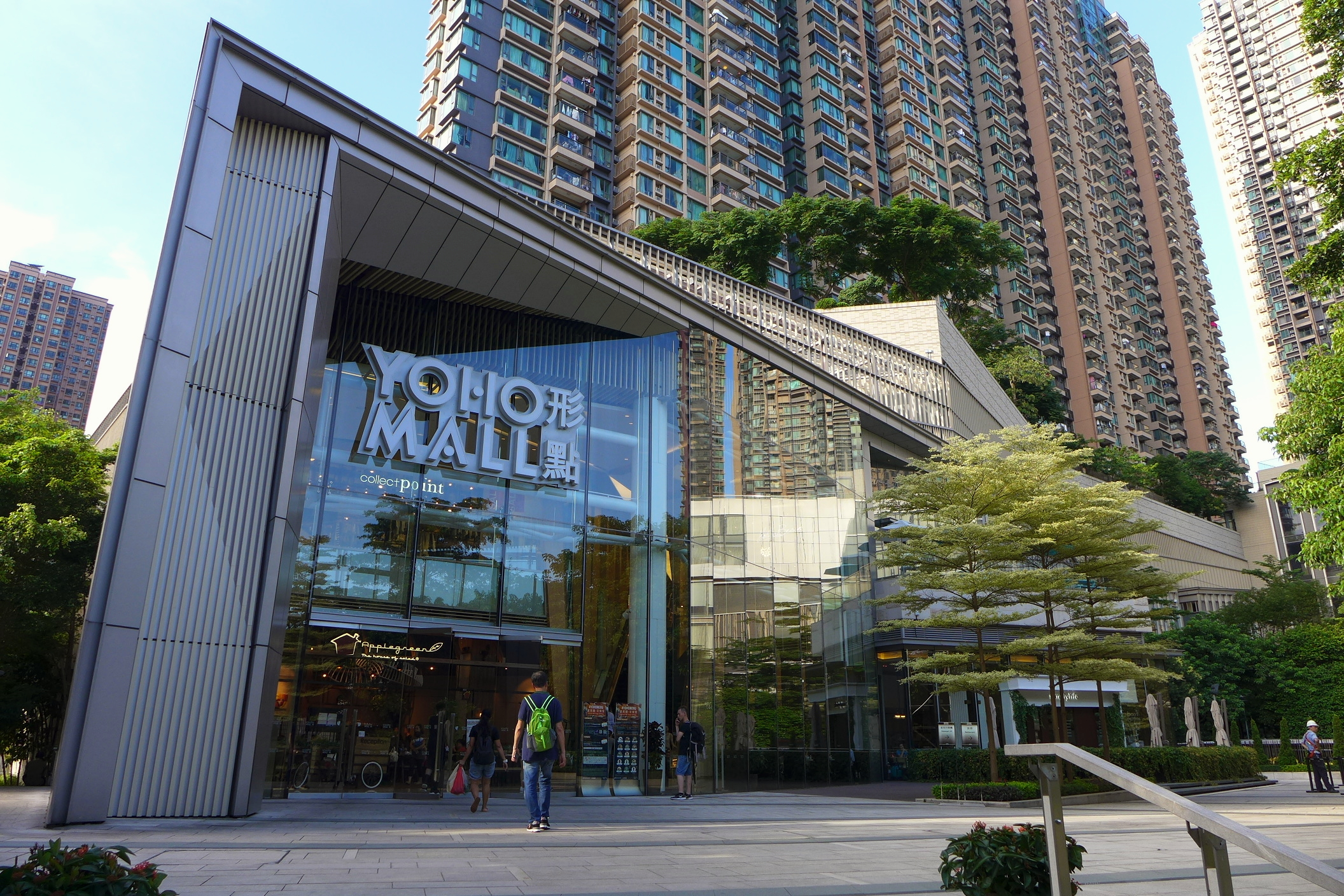 YOHO Mall Overview